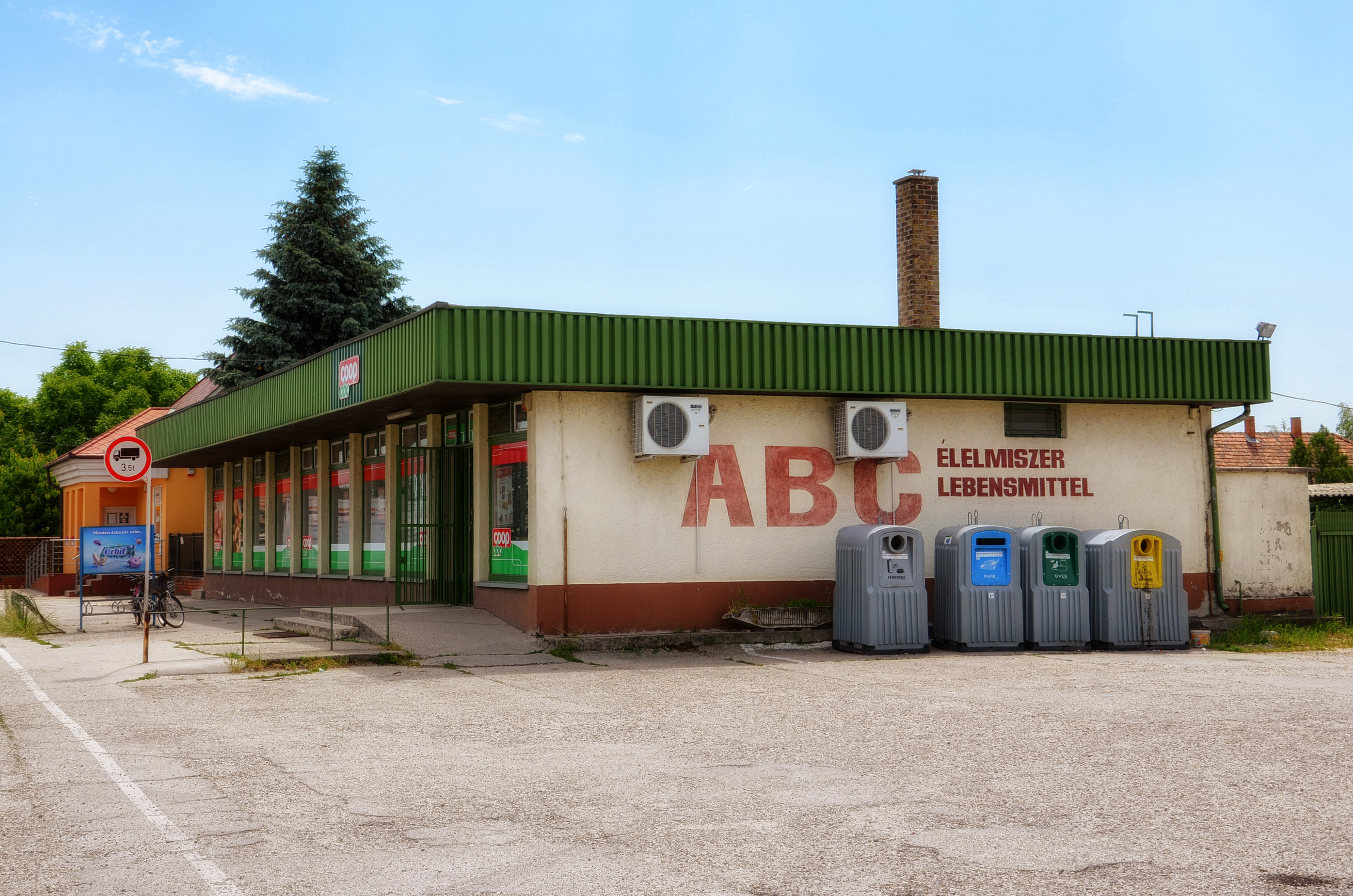 Grocery built in 1973 in Abda, Hungary